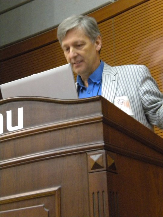 A picture of the Canadian economist Marc Lavoie.